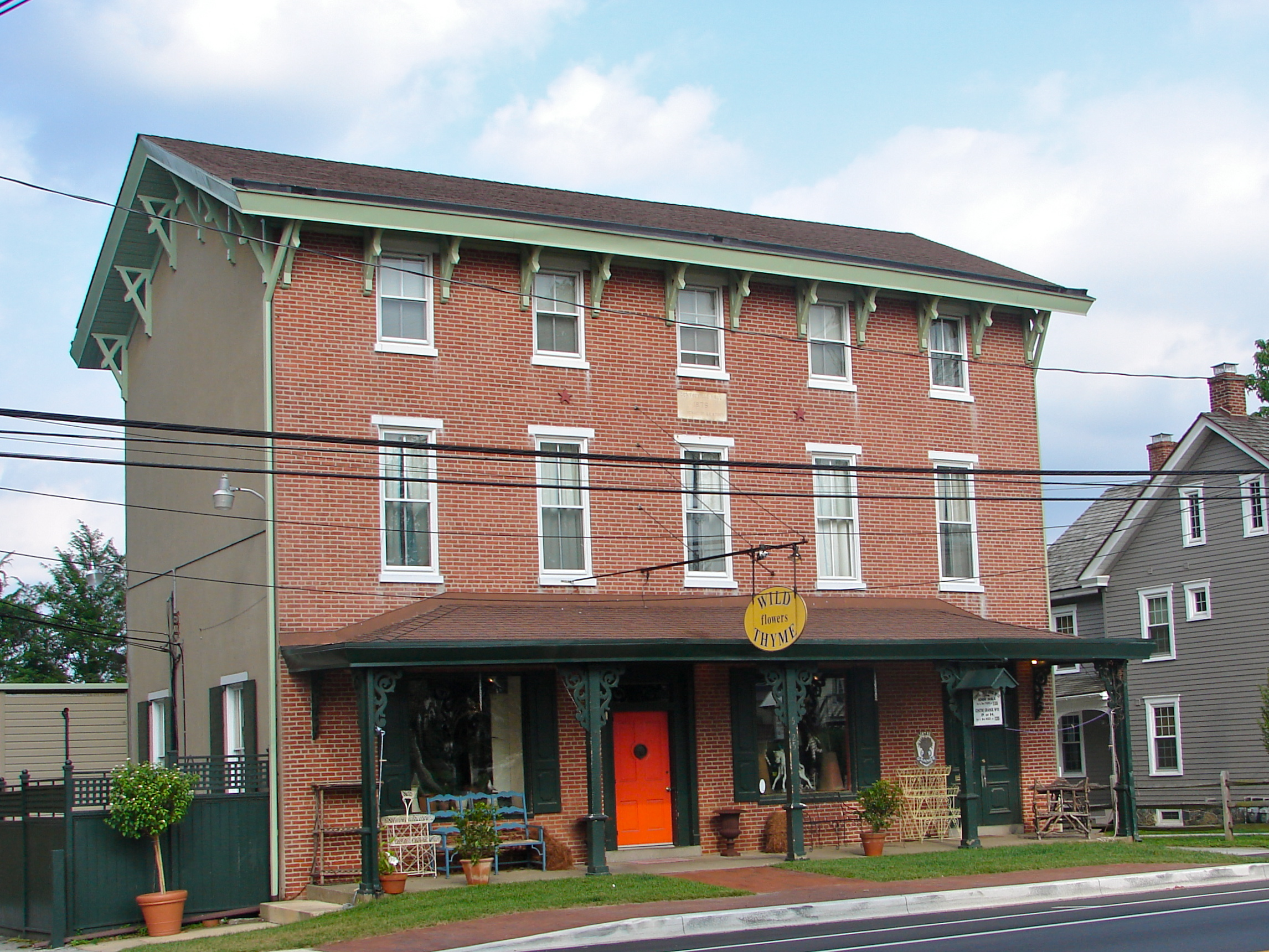 Centreville Hall, built 1876 in Centreville, Delaware. Current home of the Odd Fellows (Lodge No. 37) and the Grange (No. 11 P of H). Part of the Centreville Historic District on the NRHP since April 13, 1983, near Kennett Pike and Owls Nest/Twaddell Mill Rd., Centreville, DE